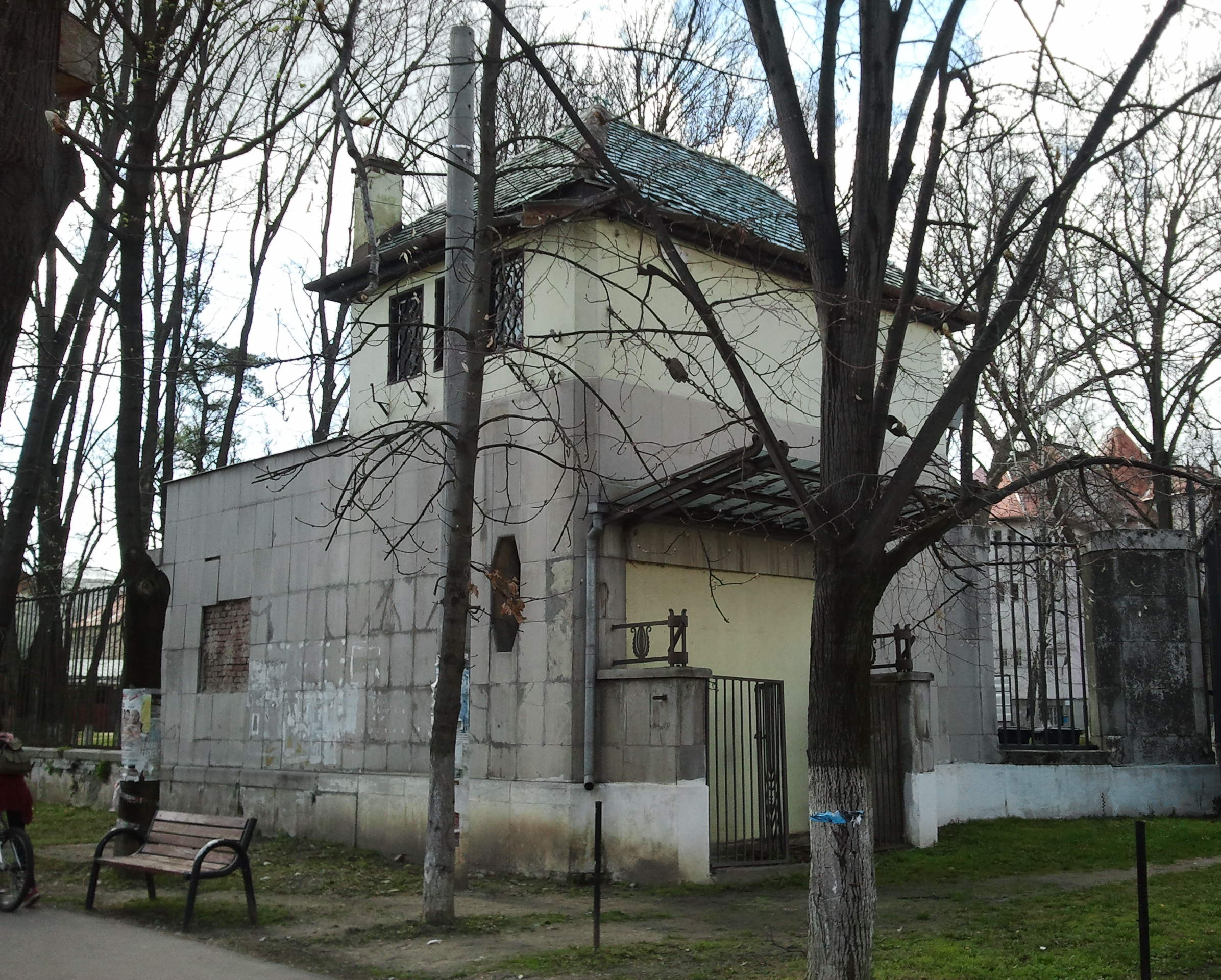 University of Oradea - Buliding H